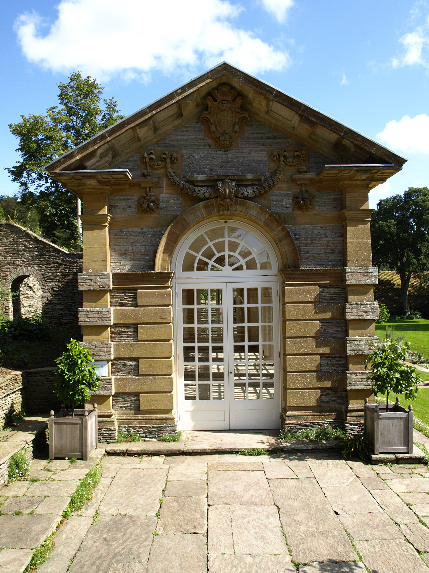 Hestercombe Gardens, Taunton, Somerset, UK. Designed by Sir Edward Lutyens and established in 1904-08.